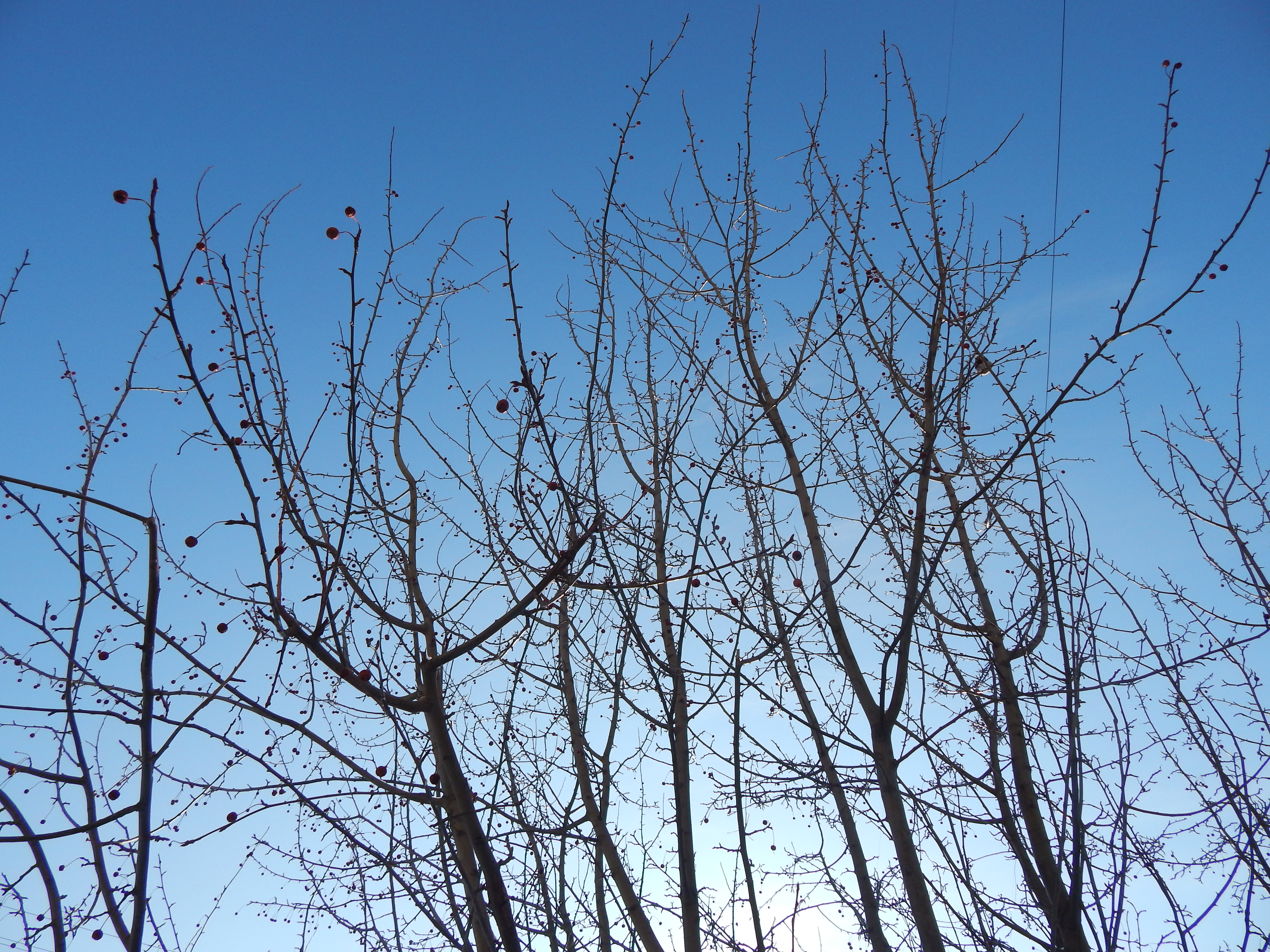 This photo was taken on the street in the city of Miass, Chelyabinsk oblast, Russia. It shows an apple tree full of ranetki (small, tasty apples).